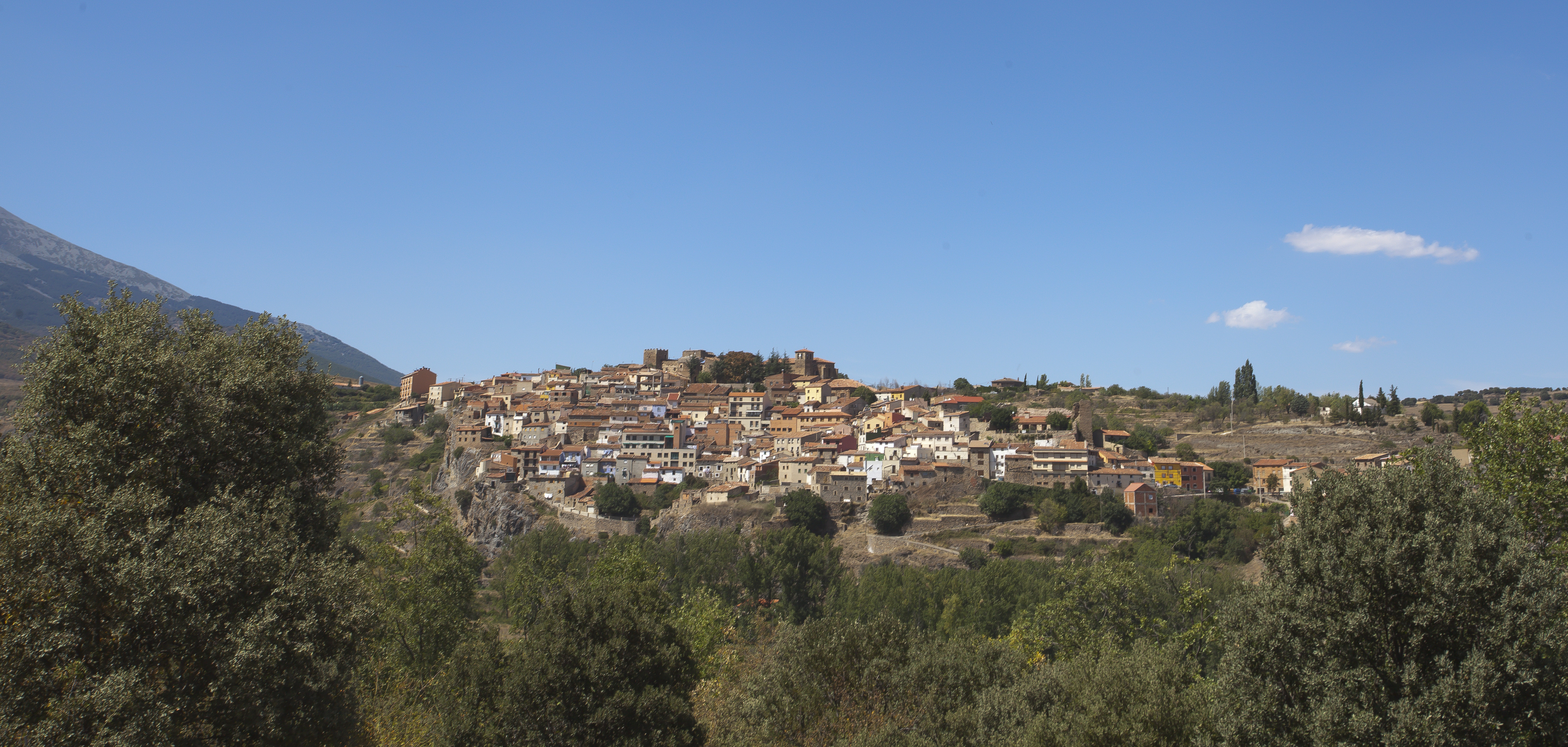 View of Añón de Moncayo, Spain